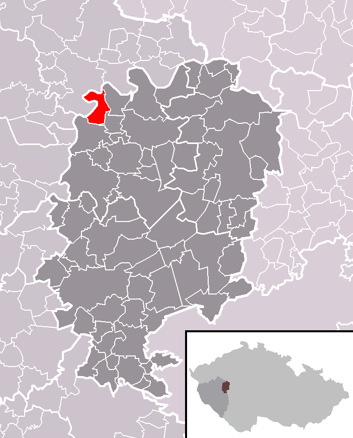 Location of Liblín municipality within Rokycany District and within identical administrative area of Rokycany as a Municipality with Extended Competence.